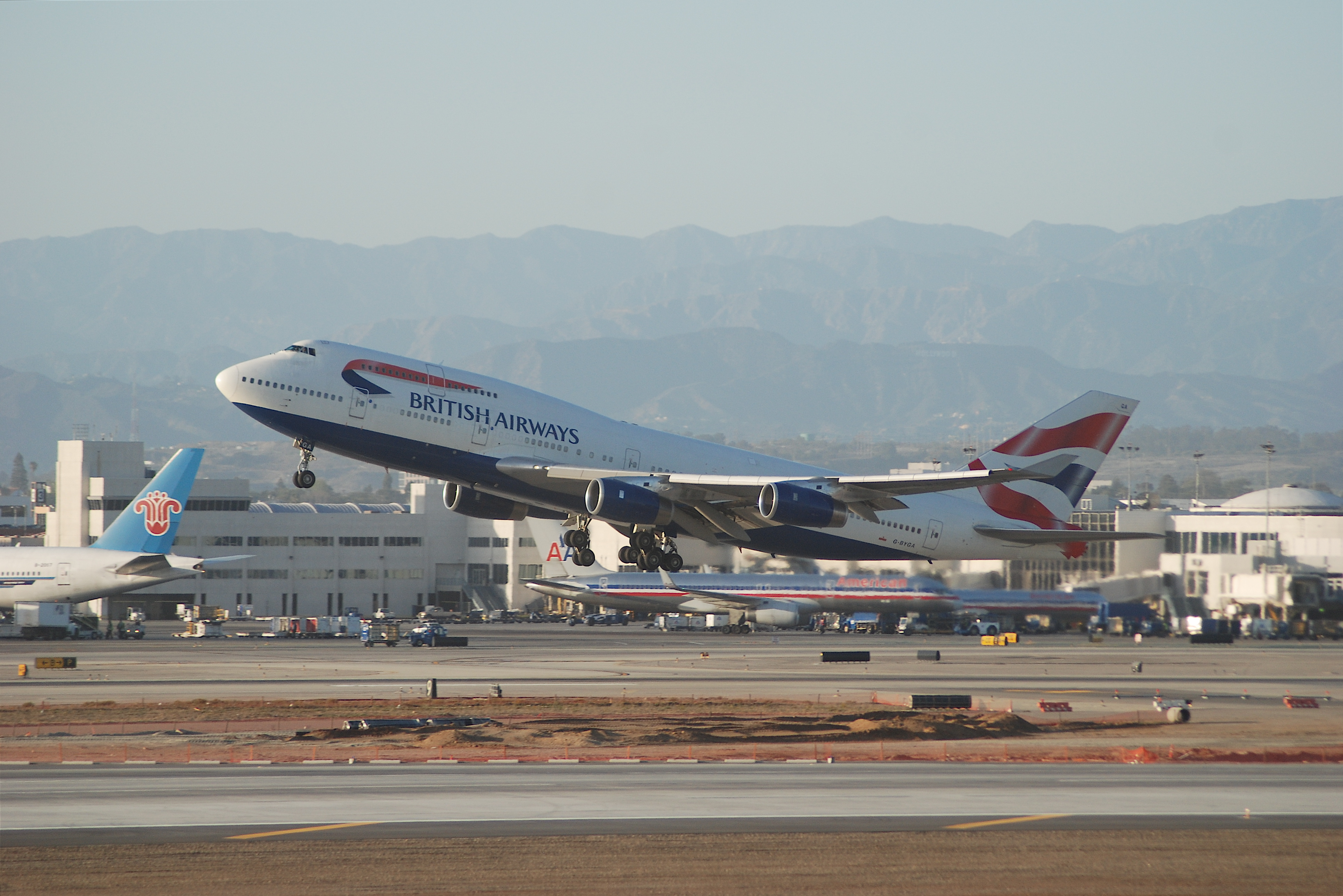 Boeing 747 of British Airways at Los Angeles International Airport